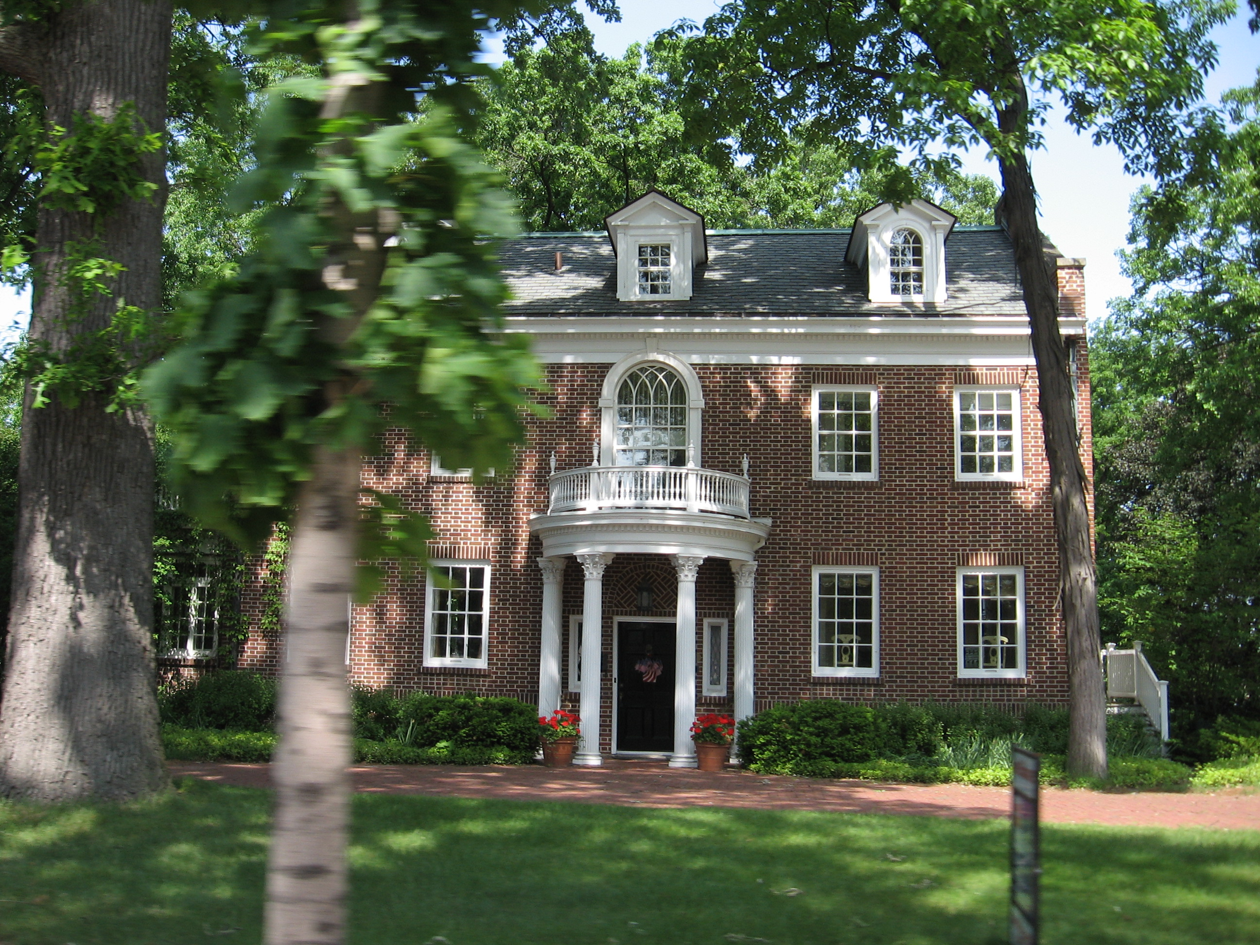 A historic home on Wisconsin Highway 57 in the Broadway Historic District in De Pere, Wisconsin which is listed on the National Register of Historic Places. This is the E. P. Smith Residence, at 903 N. Broadway St., per description and photo in the NRHP nomination documents for the district.